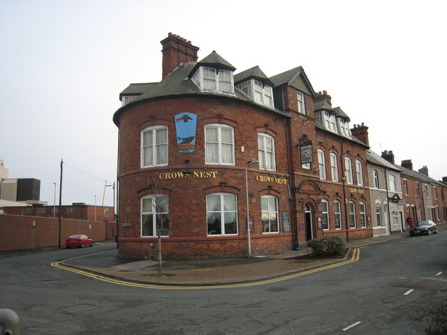 The Crow's Nest Pub Pub on Ferry Road on Barrow Island. BAE Systems is the works to the left.